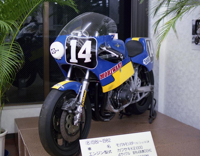 Morikwaki Monster, motorcycle that Wayne Gardner took in Szuka 8h of 1981